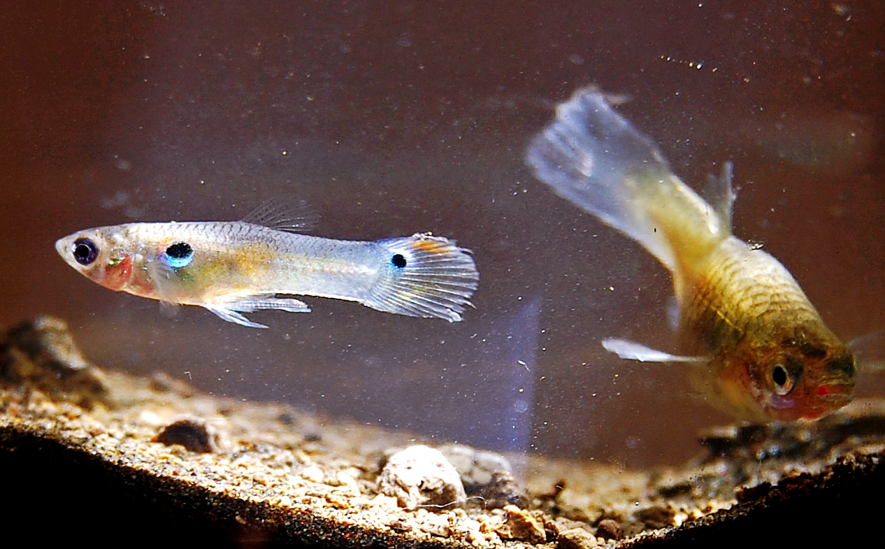 Wild Poecilia reticulata from Ciliwung River, Bogor, West Java, Indonesia. Left: male, right: female